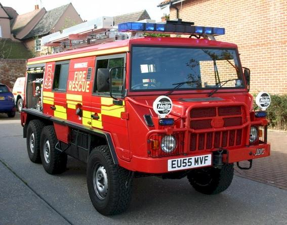 An off-road firefighting appliance used by the Essex Fire & Rescue Service in England.